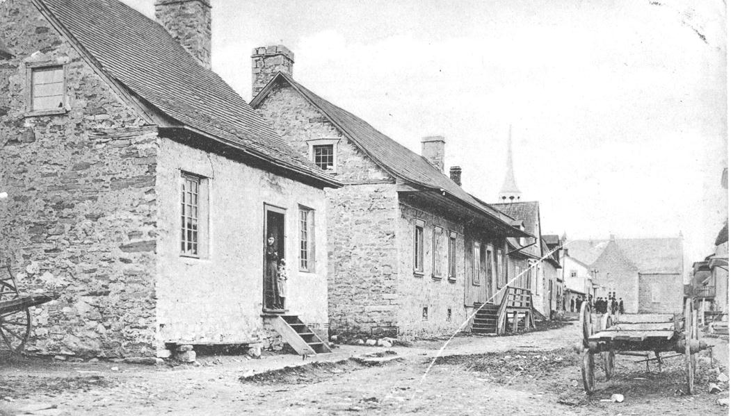 Kahnawake, an Indian reserve on the south shore of the St. Lawrence River in Quebec, Canada, across from Montreal.